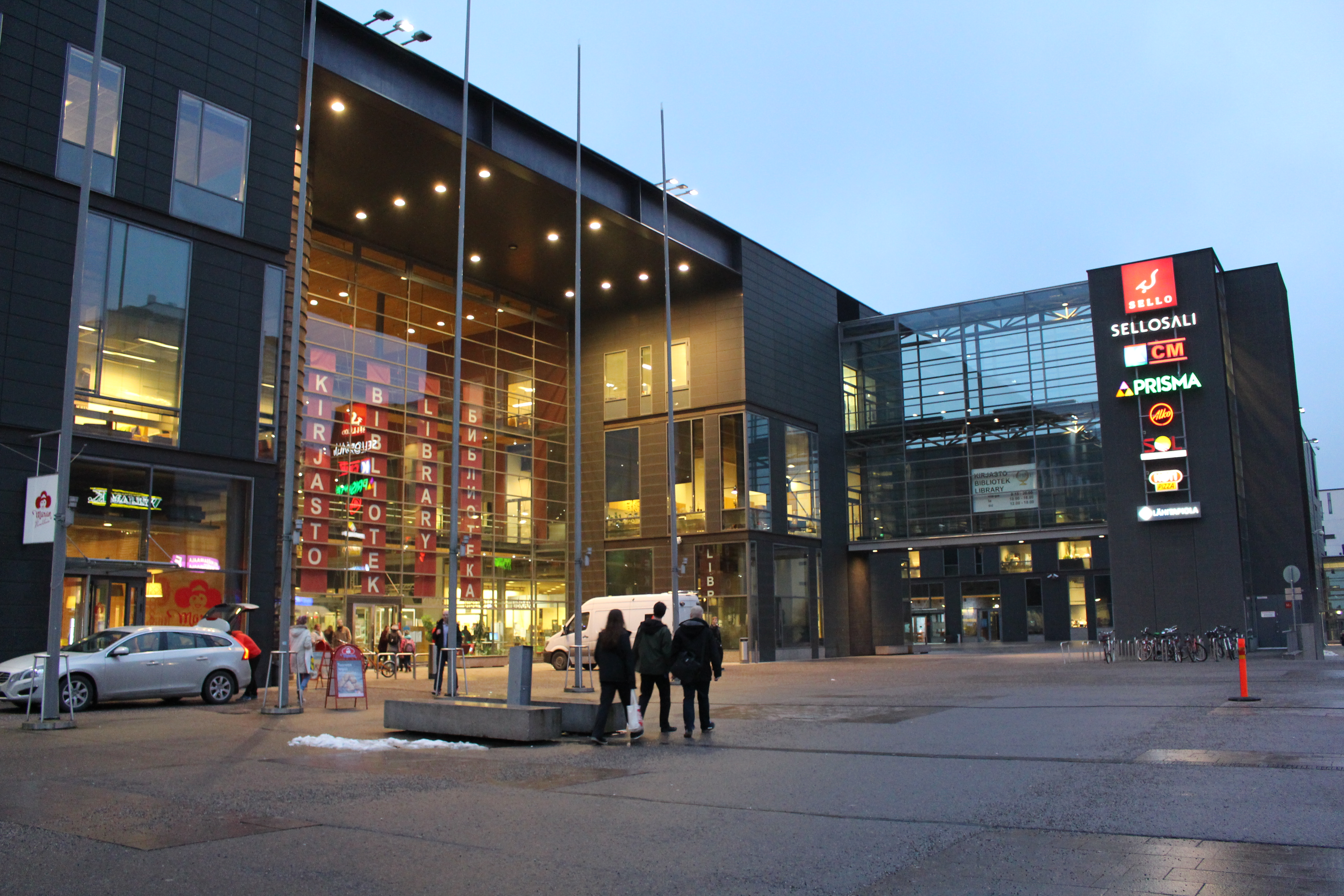 Sello Library in Espoo, Finland